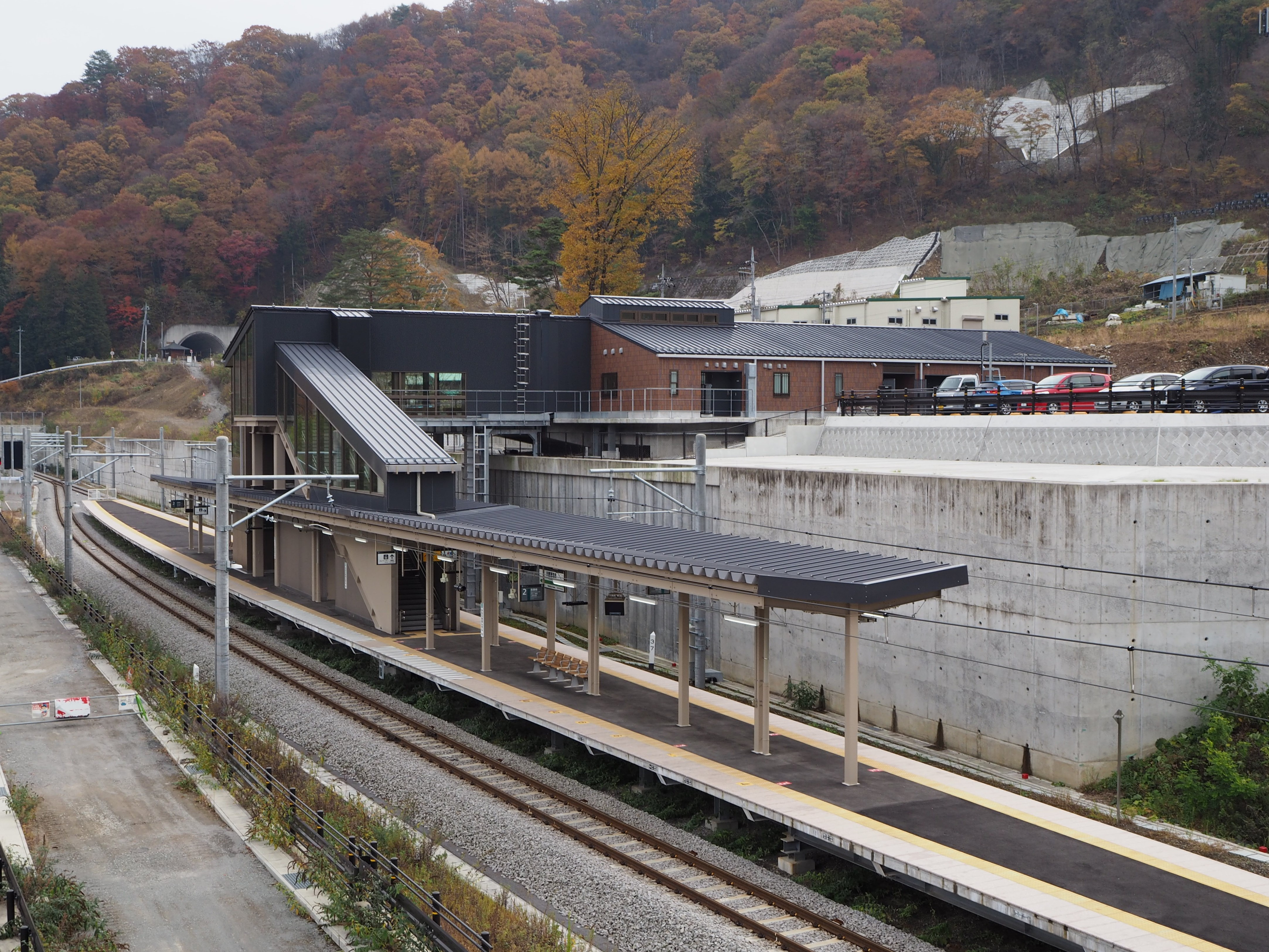 Kawarayu-Onsen Station